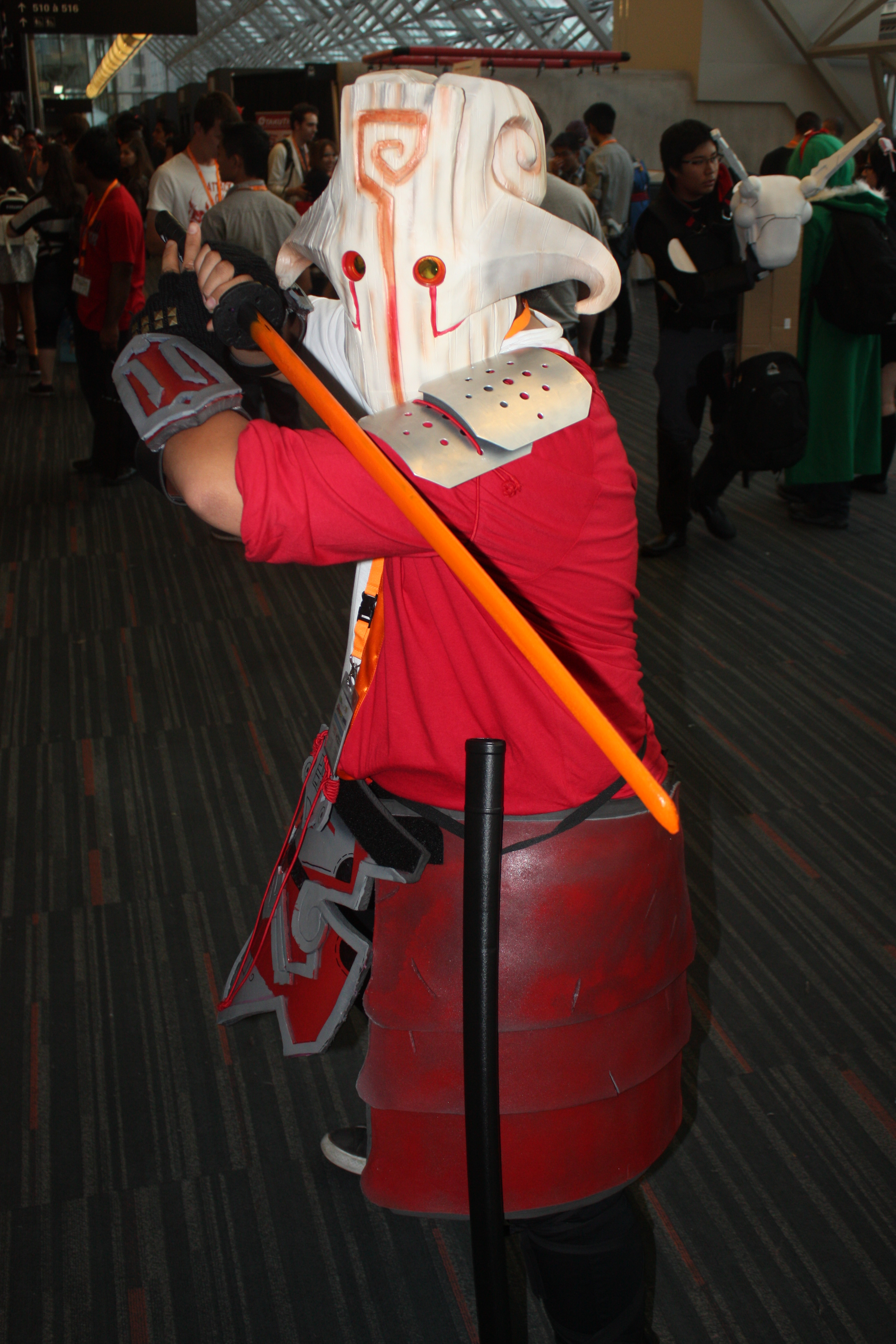 A fan cosplaying the character Juggernaut from the video game, Dota 2